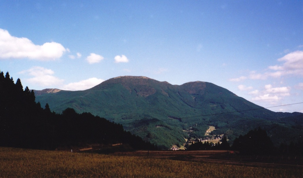 Mount Obora Misugi, Tsu, Mie, Japan.